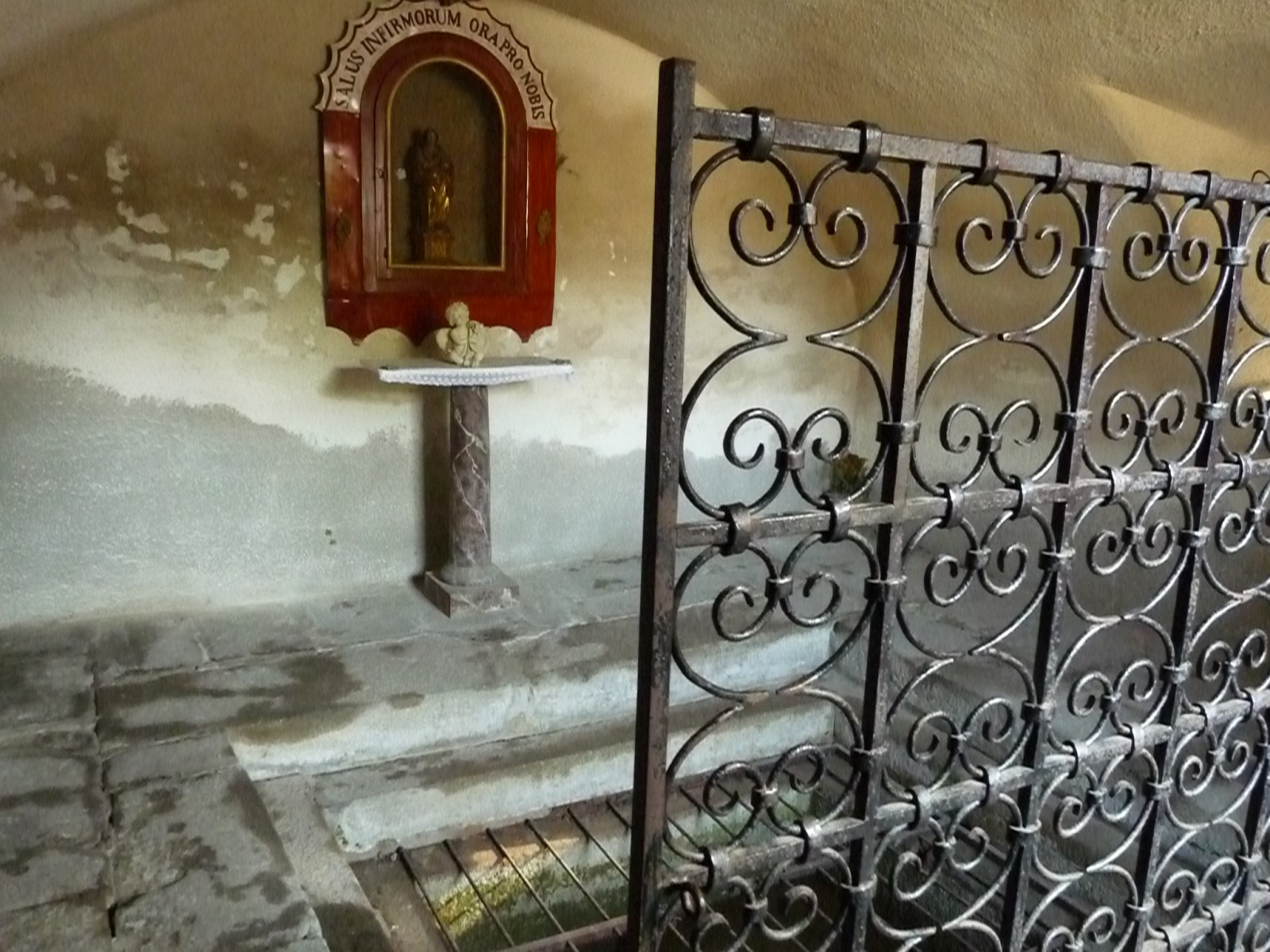 Font Romeu = "fountain of the pilgrim" in catalan